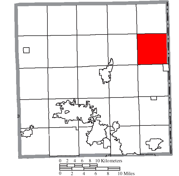 Map of the municipal and township boundaries of Trumbull County, Ohio, United States, as of the 2000 census, with the location of Vernon Township highlighted. Township borders are shown only in unincorporated areas in order to differentiate incorporated and unincorporated areas more clearly.